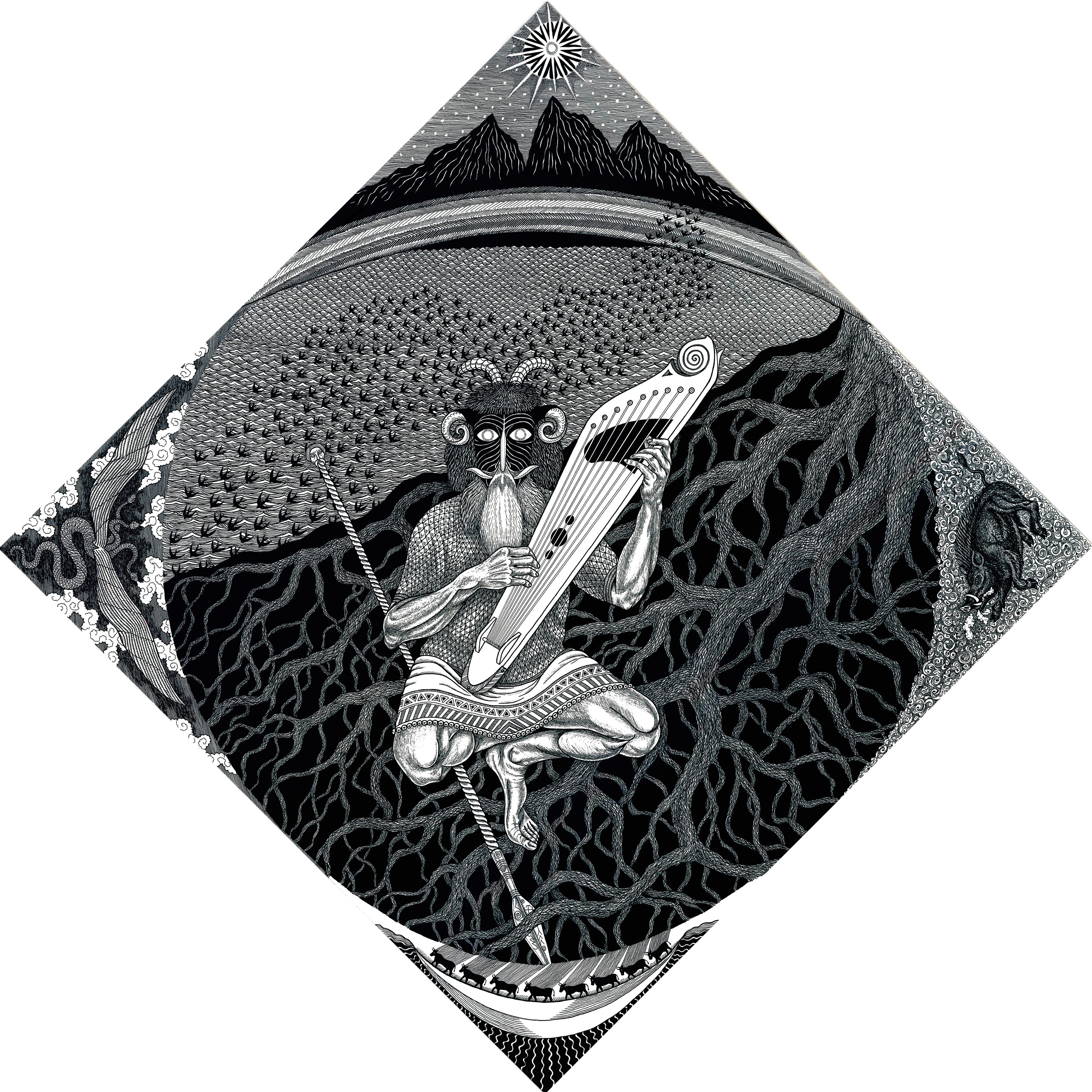 Veles by Marek Hapon